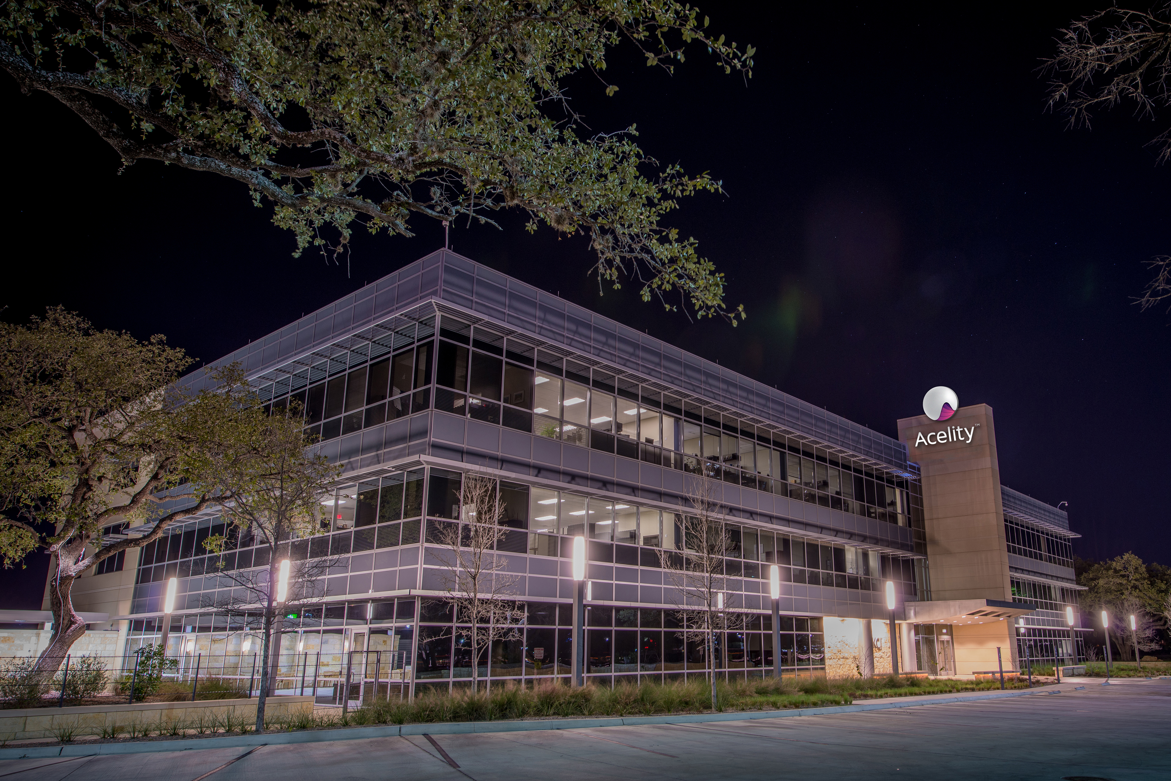 This is the Acelity headquarters in San Antonio, TX.